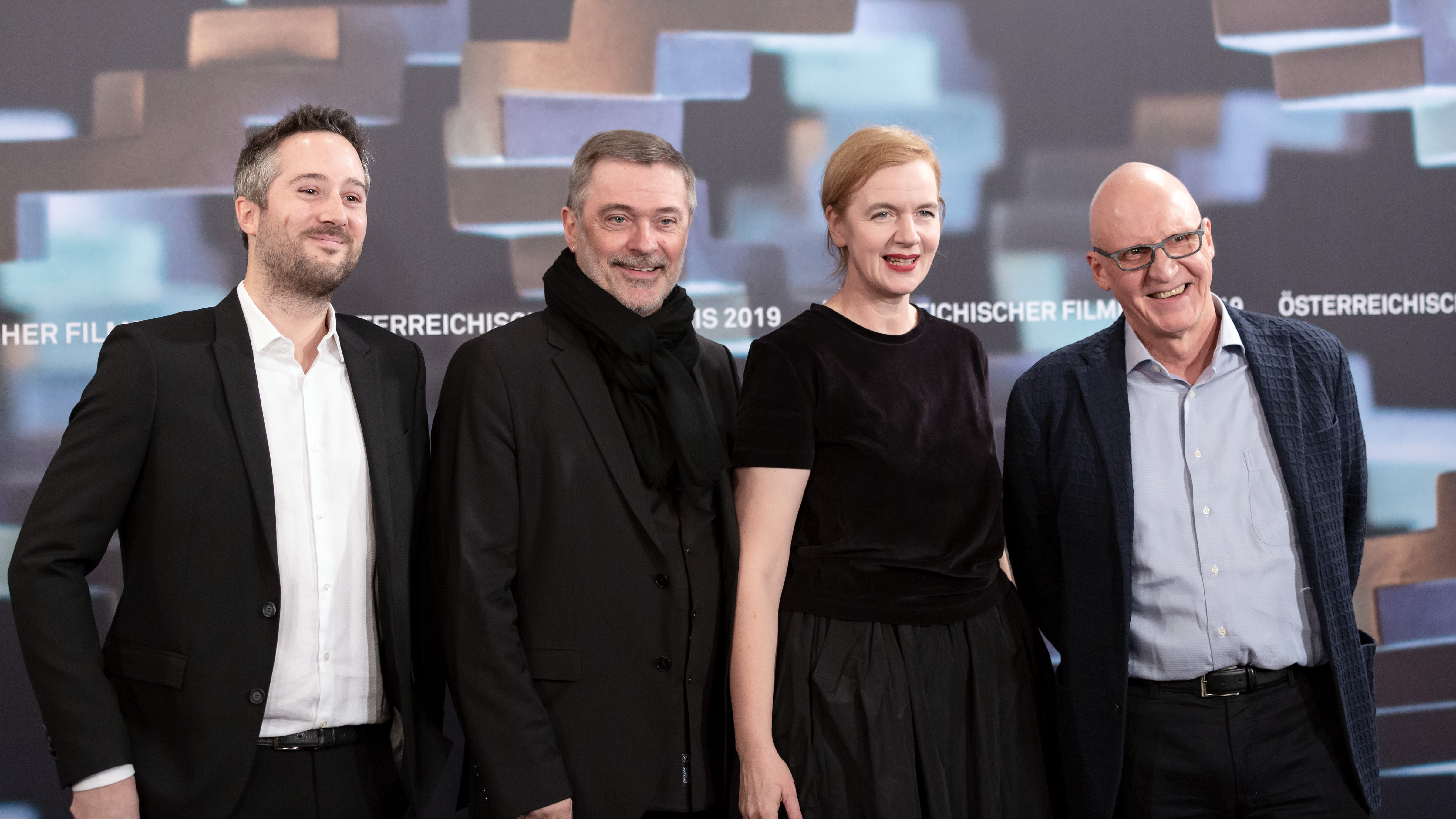 l.t.r.: Adrien Chef, Paul Thiltges, Viktoria Salcher and Mathias Forberg ("Murer – Anatomie eines Prozesses"), photo call at the Austrian Film Awards 2019 (Rathaus, Vienna,Austria).